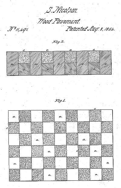 This is the drawing of Nicolson's pavement from his patent, to be used to illustrate City of Elizabeth v. American Nicholson Pavement Co. Other information drawing from US patent